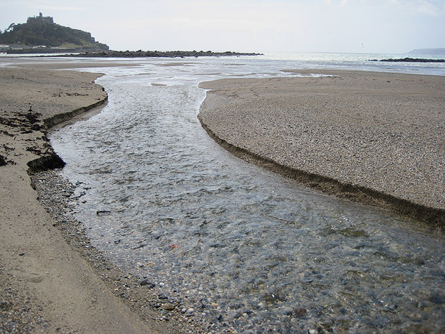 Red River emptying into Mount's Bay The fresh water quickly carves a channel through the soft sand.